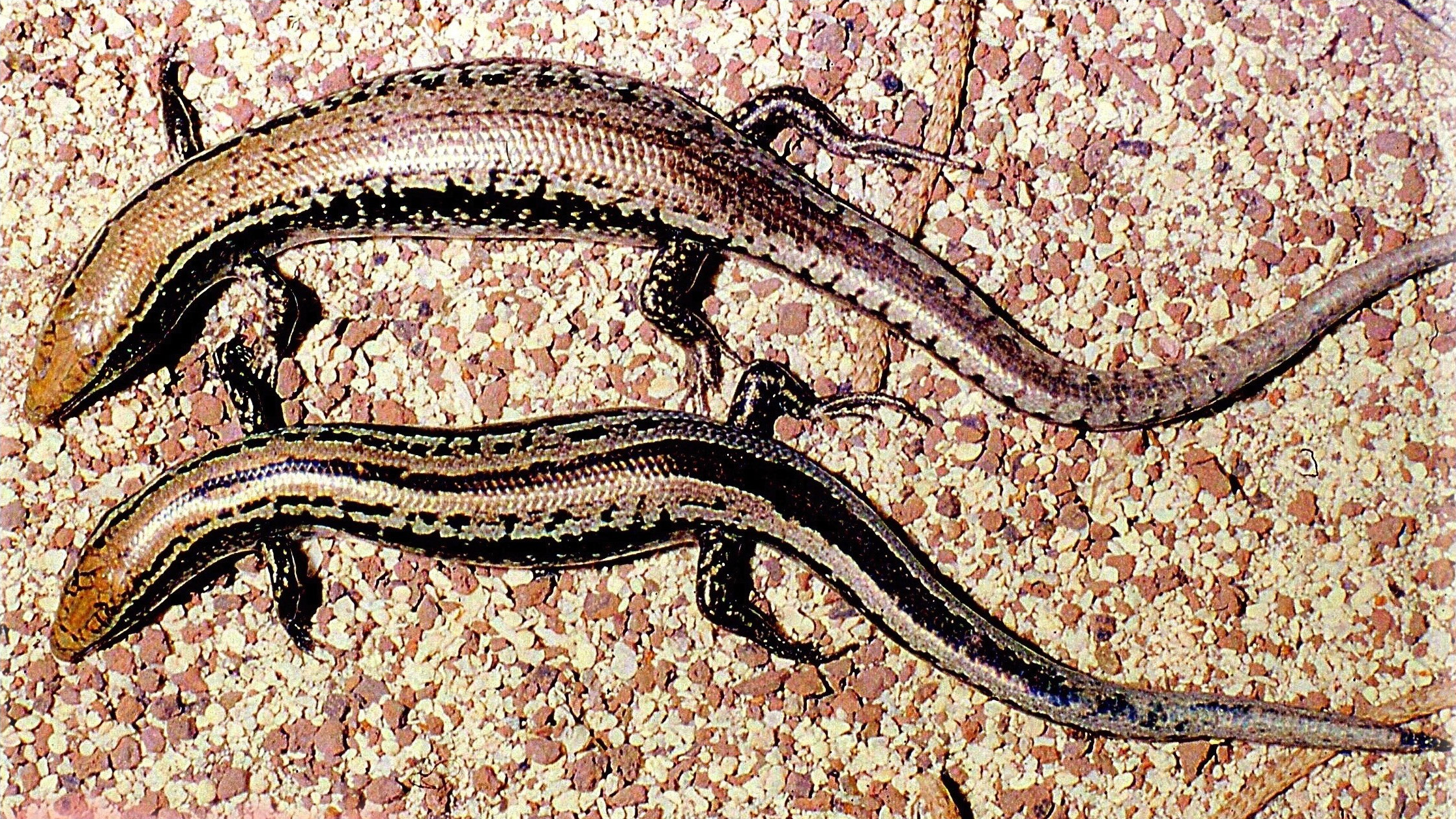 Skinks (Gongylomorphus bojeri) on Ile Plate, Mauritius